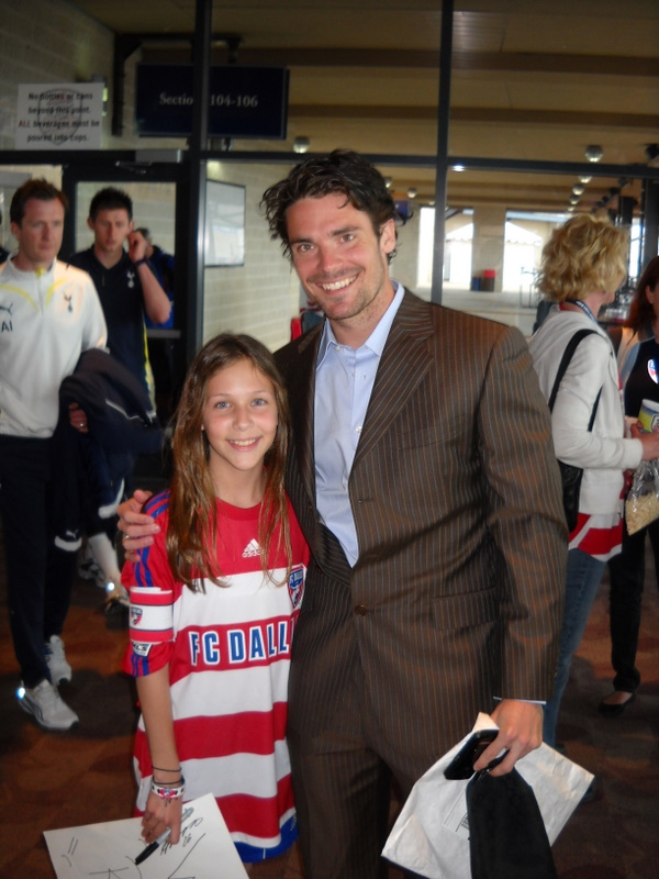 Heath Pearce (right)